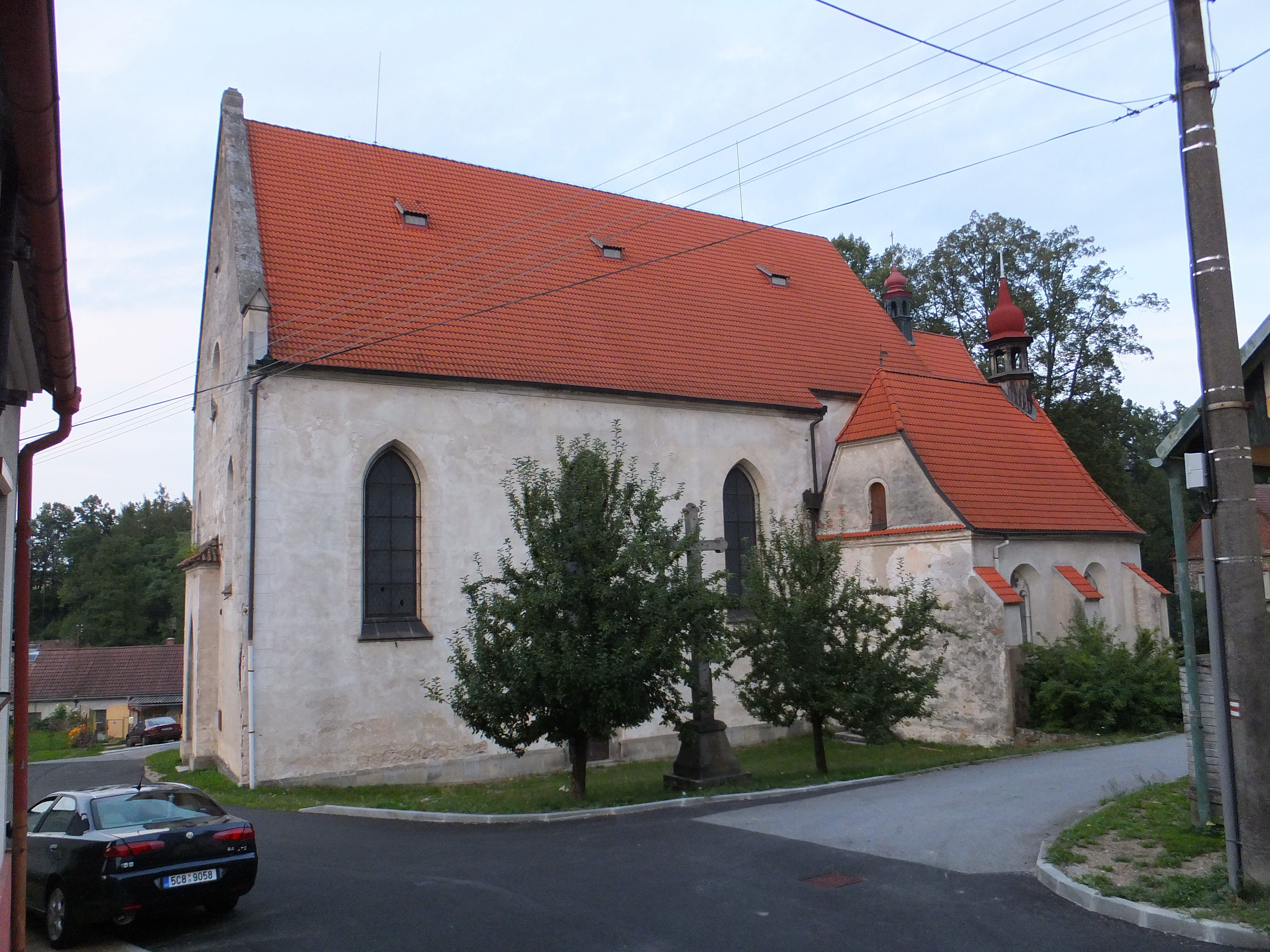 Stráž nad Nežárkou, the church of Saints Peter and Paul